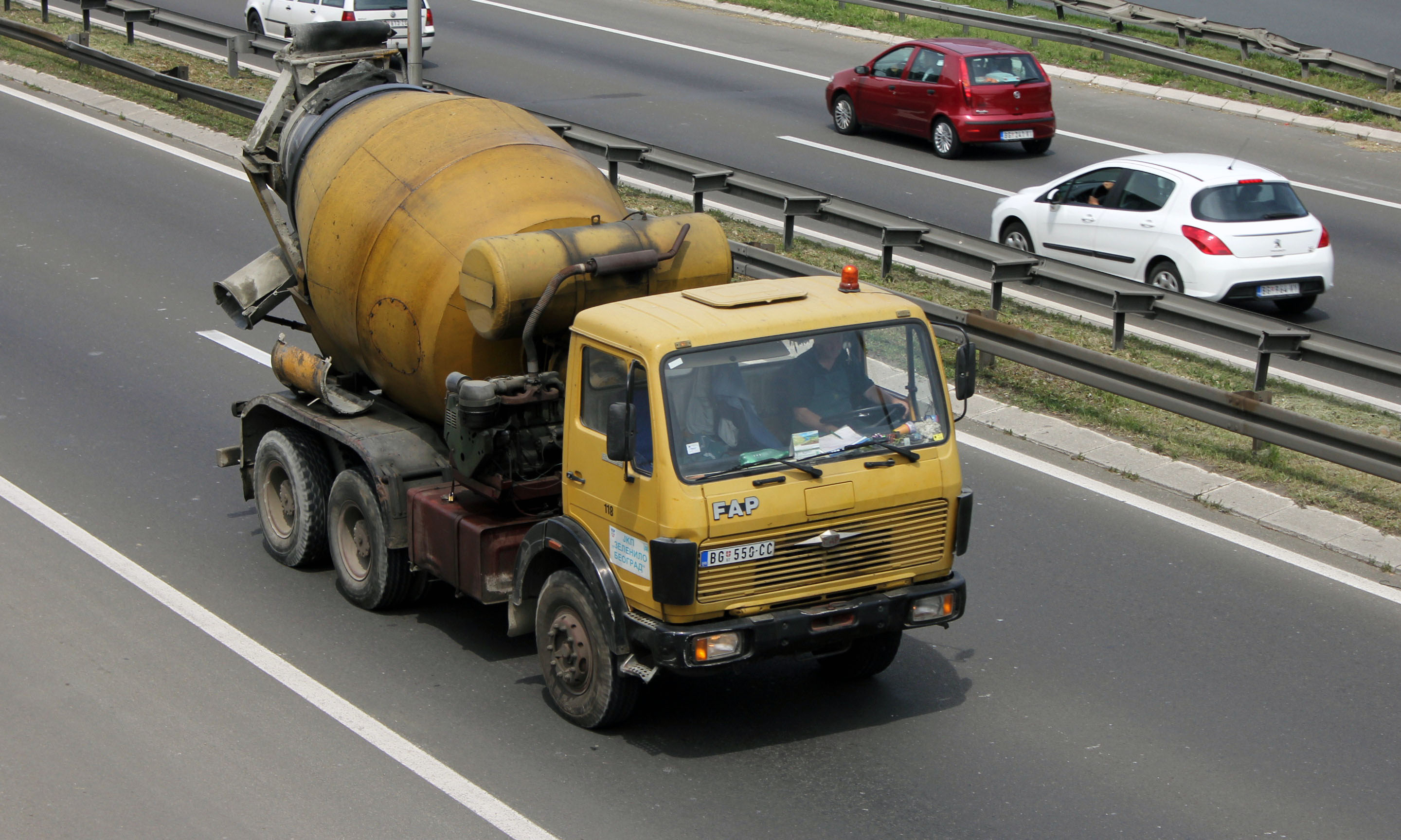 FAP 2629 VB cement mixer truck of JKP Zelenilo Belgrade city public greenery company.